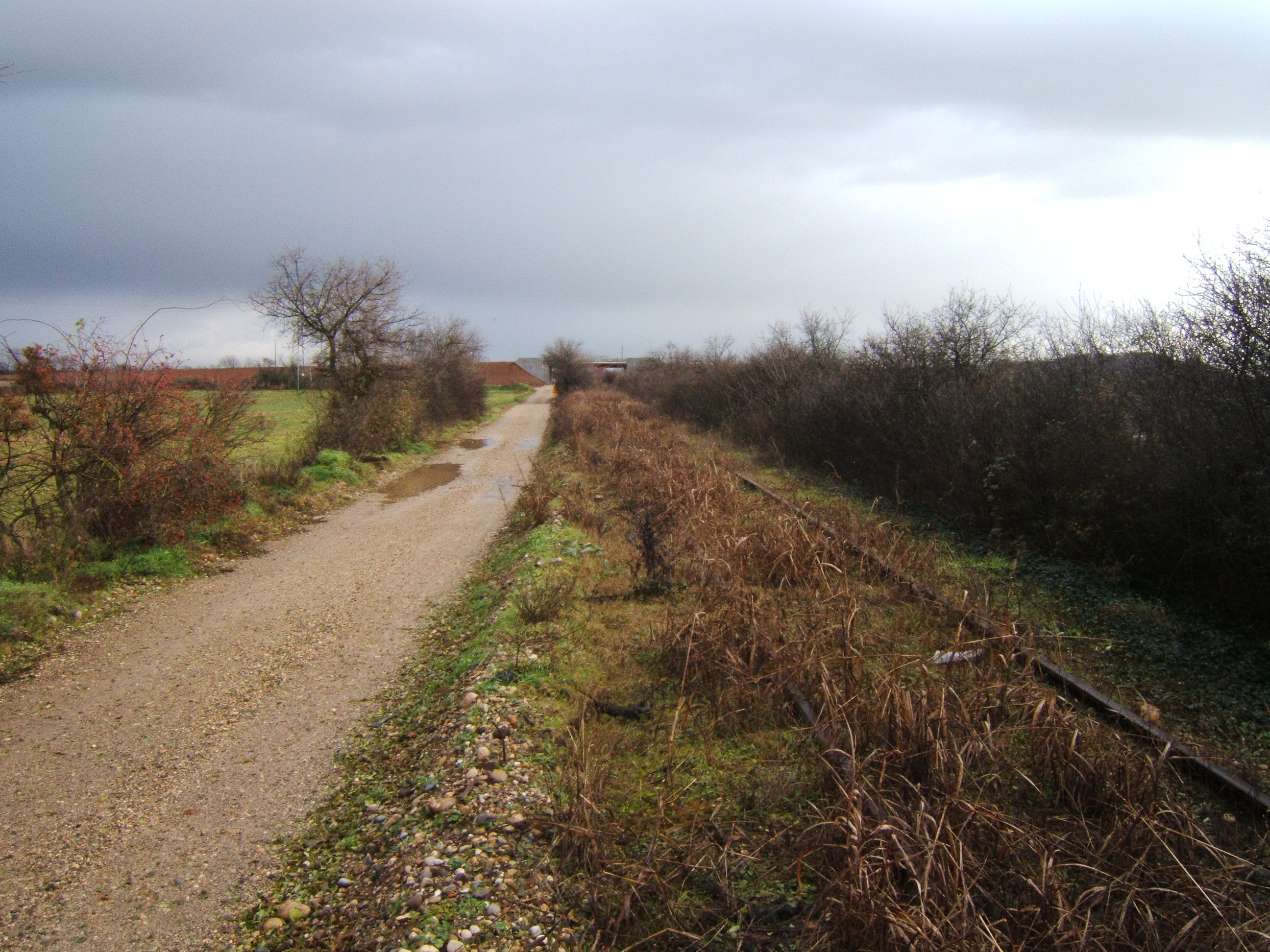 Old railway line CFEL (Compagnie des chemins de fer de l'Est de Lyon) wich wil be used for the LESLYS tram project to the airport. Taken at Meyzieu 2007